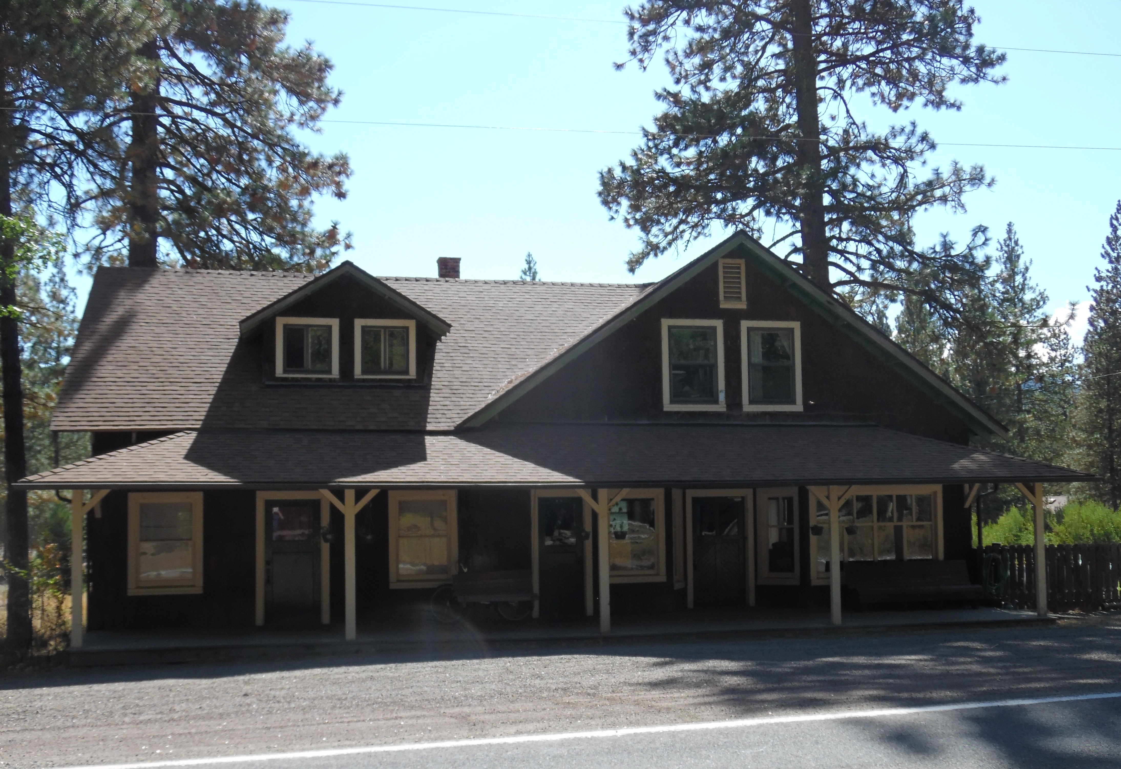 Roadside building in the unincorporated area of Lincoln in Jackson County along Oregon Route 66 in southern Oregon.